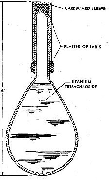 Blendkorper 1H